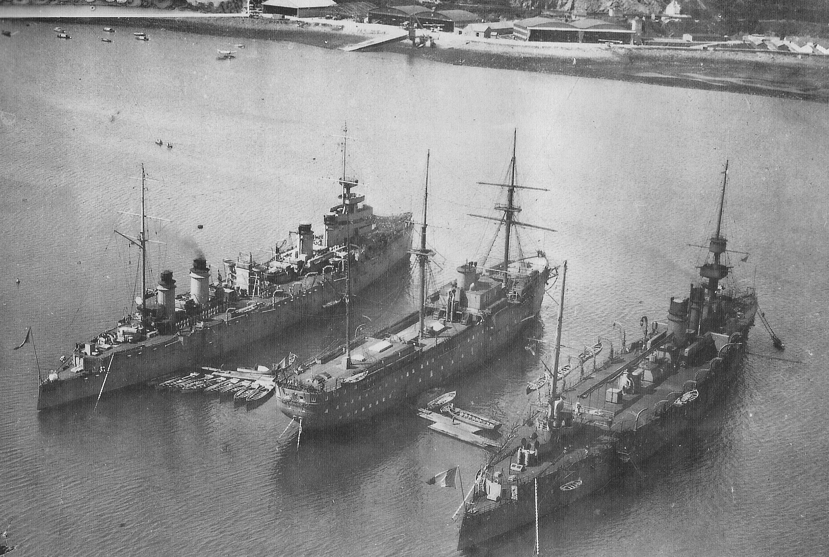 The three training and accommodation ships of the sailors apprenctice school in Brest, 1940: Gueydon at right, Trémentin (ex Montcalm) at left, Armorique (ex Mytho) in the middle